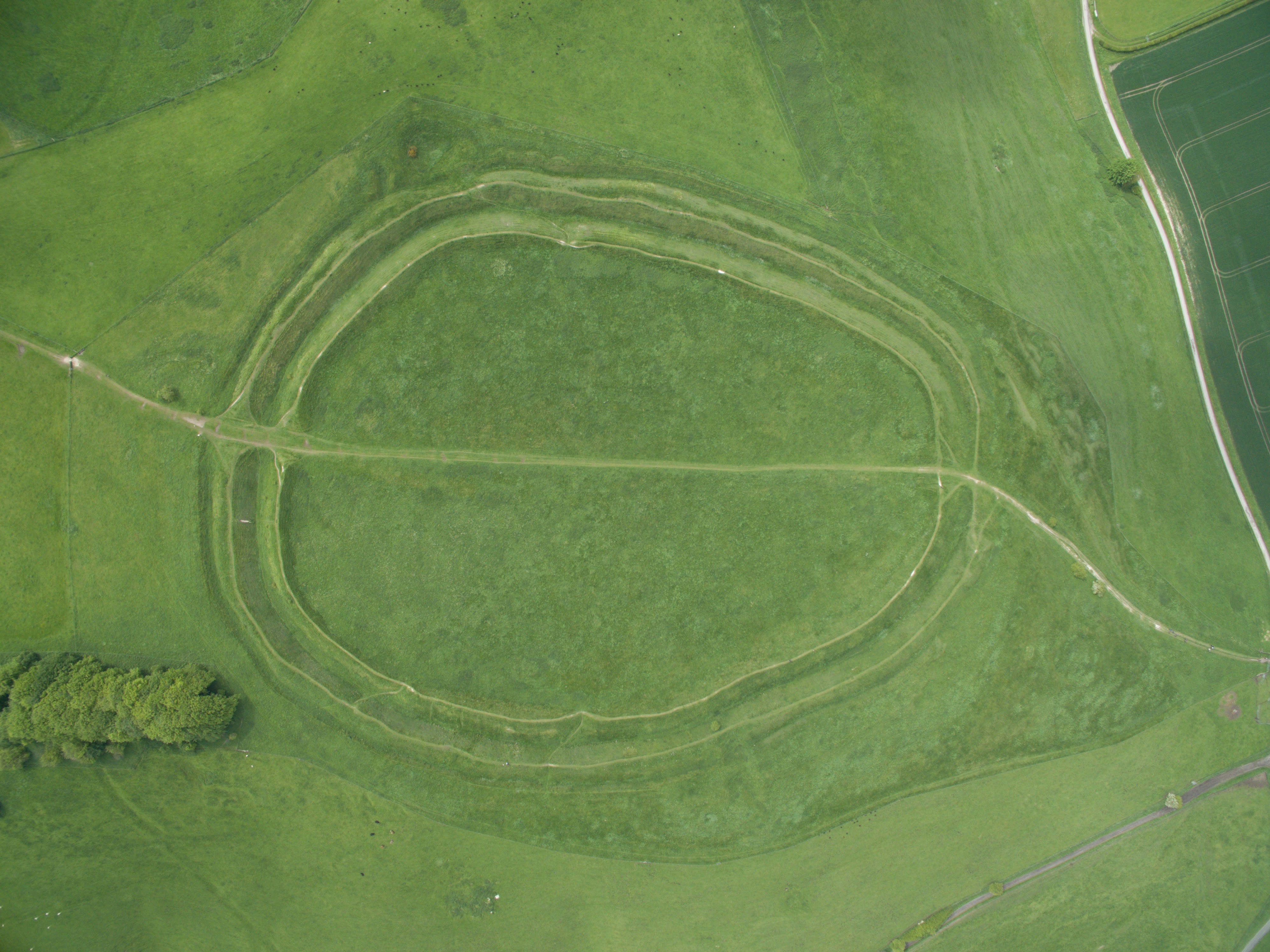 This image was shot from my DJI Phamtom 3 Pro